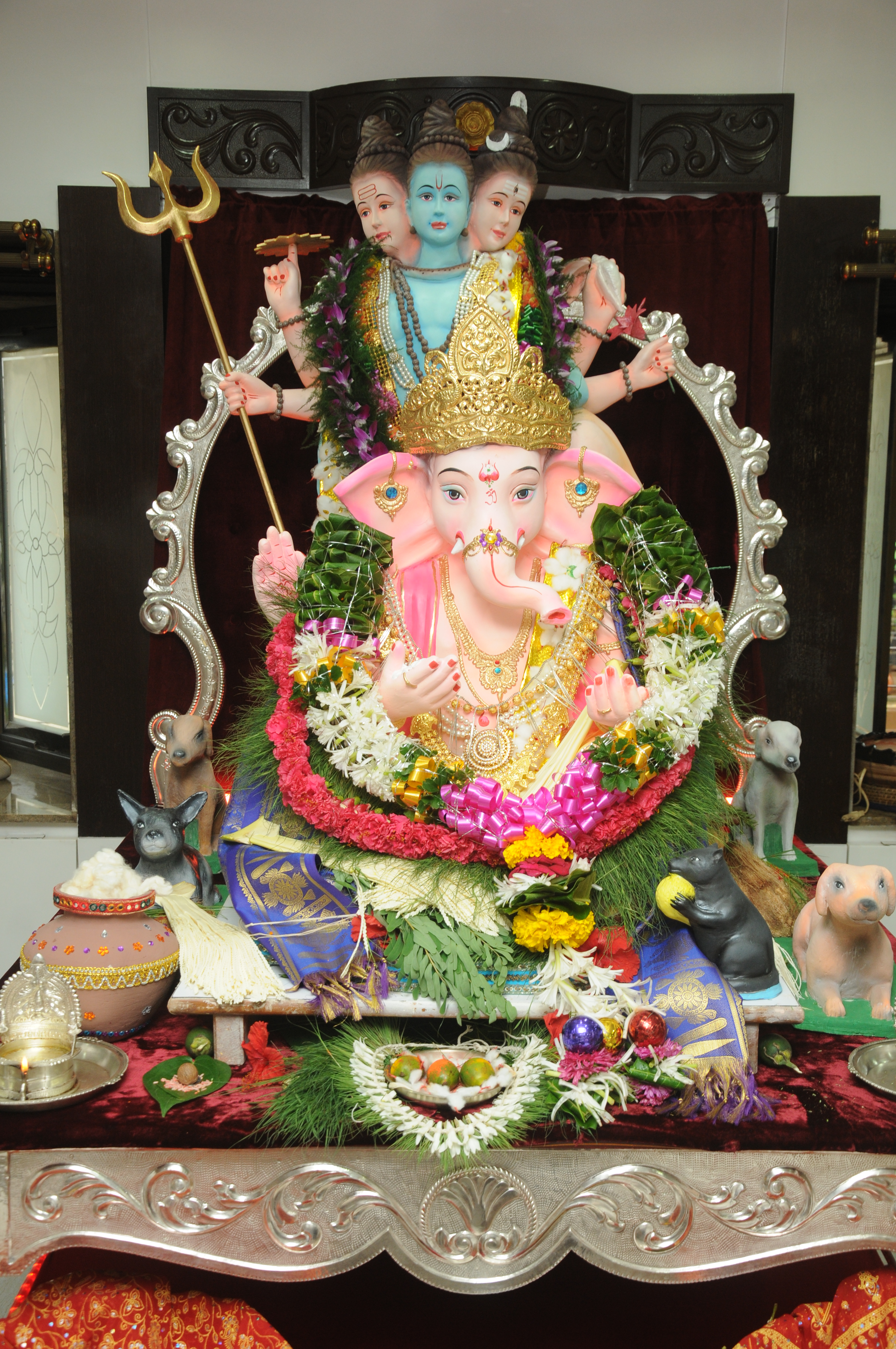 Idol of Lord Ganesha at Sadguru Shree Anirudha's resident during Ganeshotsav